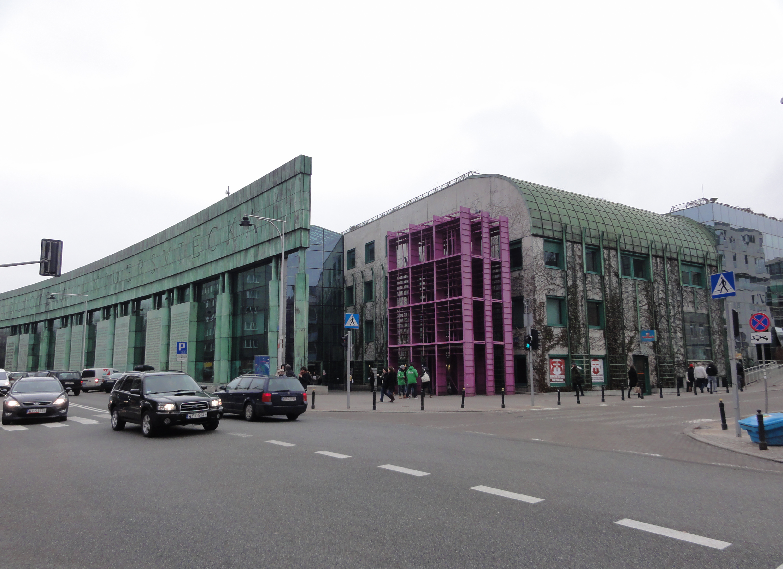 Exterior of the Building of the University Library in Warsaw